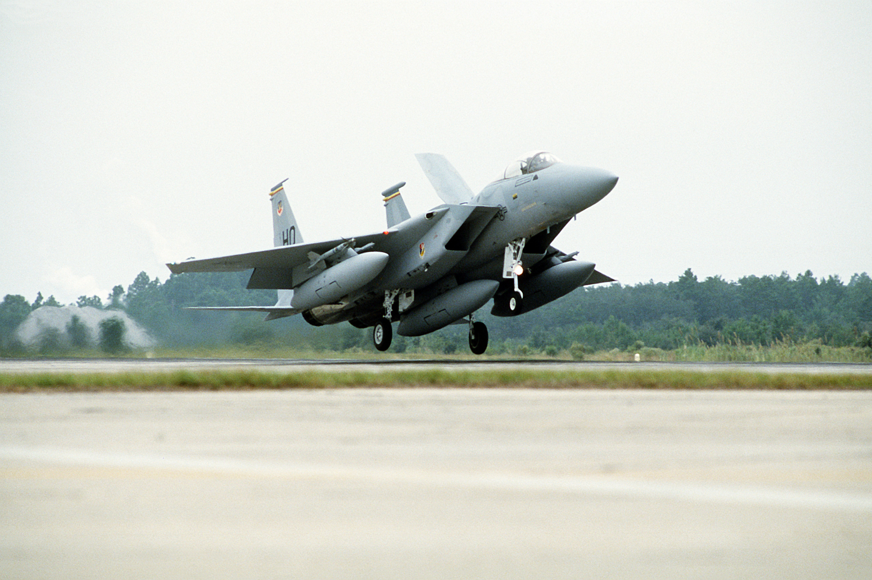 A 49th Tactical Fighter Wing F-15 Eagle aircraft lands on a runway on the opening day of the air-to-air weapons meet William Tell '86. Location: TYNDALL AIR FORCE BASE, FLORIDA (FL) UNITED STATES OF AMERICA (USA)